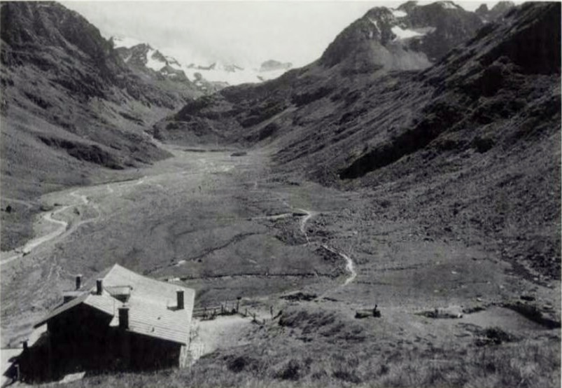 Amberger huts